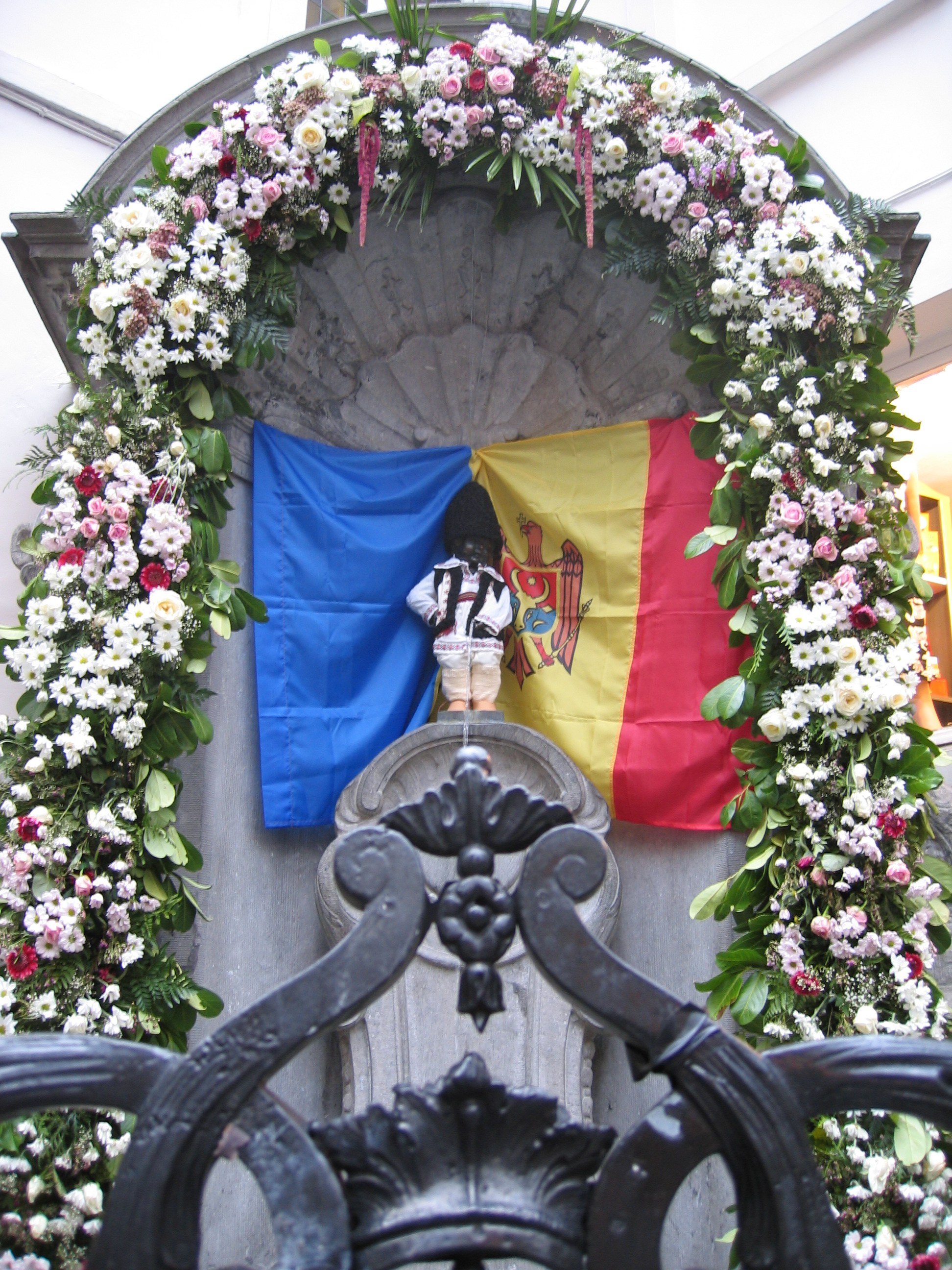 “Manneken Pis not war” (Jean-Luc Fonck)